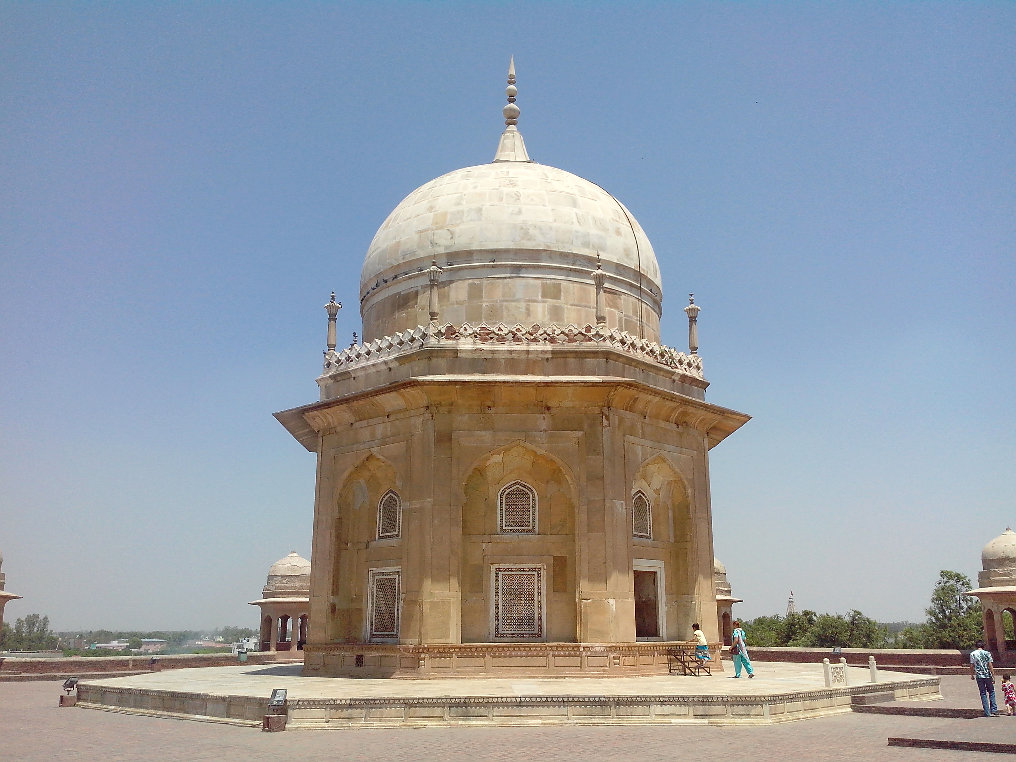 Sheikh Chilli Tomb, Kurukshetra, Haryana, India